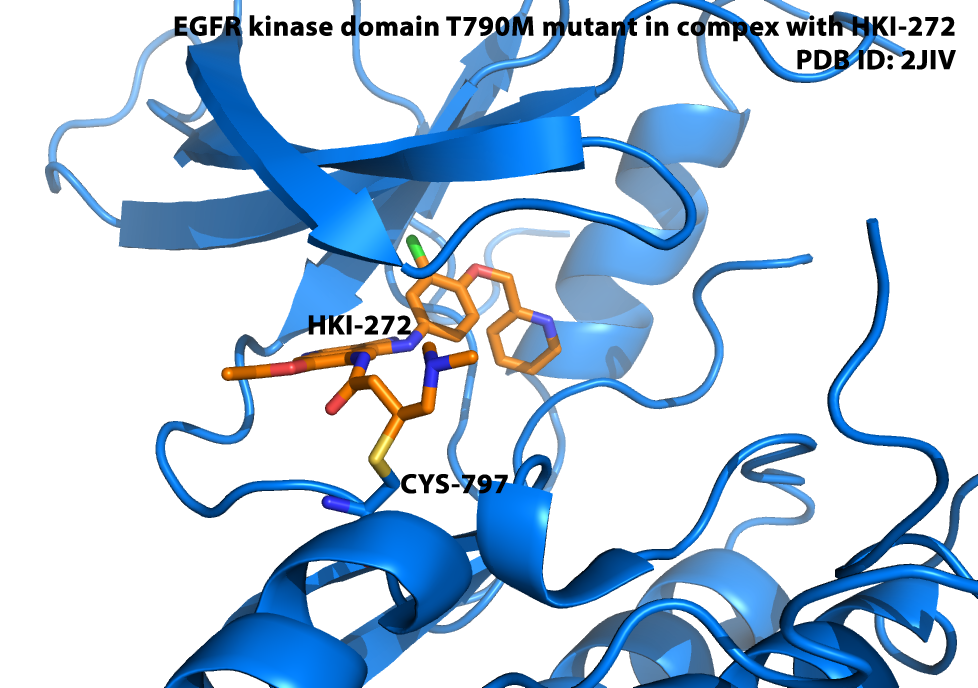 EGFR kinase T790M mutant covalently bound to HKI-272 based on publicly released crystal structure PDB ID: 2JIV